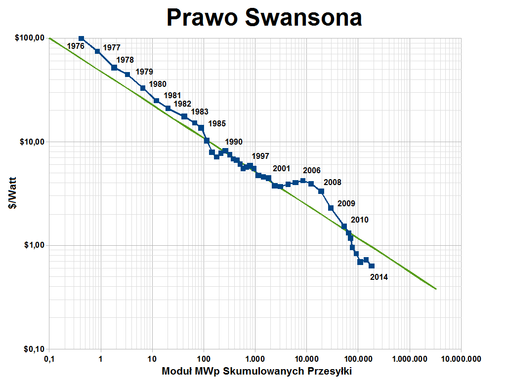 The green line shows Swanson's law, a 20% decrease in price for every doubling of cumulative shipped photovoltaics. The blue line shows actual world wide module shipments vs. average module price, from 1976 to 2014. Prices are in 2011 dollars. Data is from Figure 1, ITRPV Edition 2015. compare to current spot-market prices here.